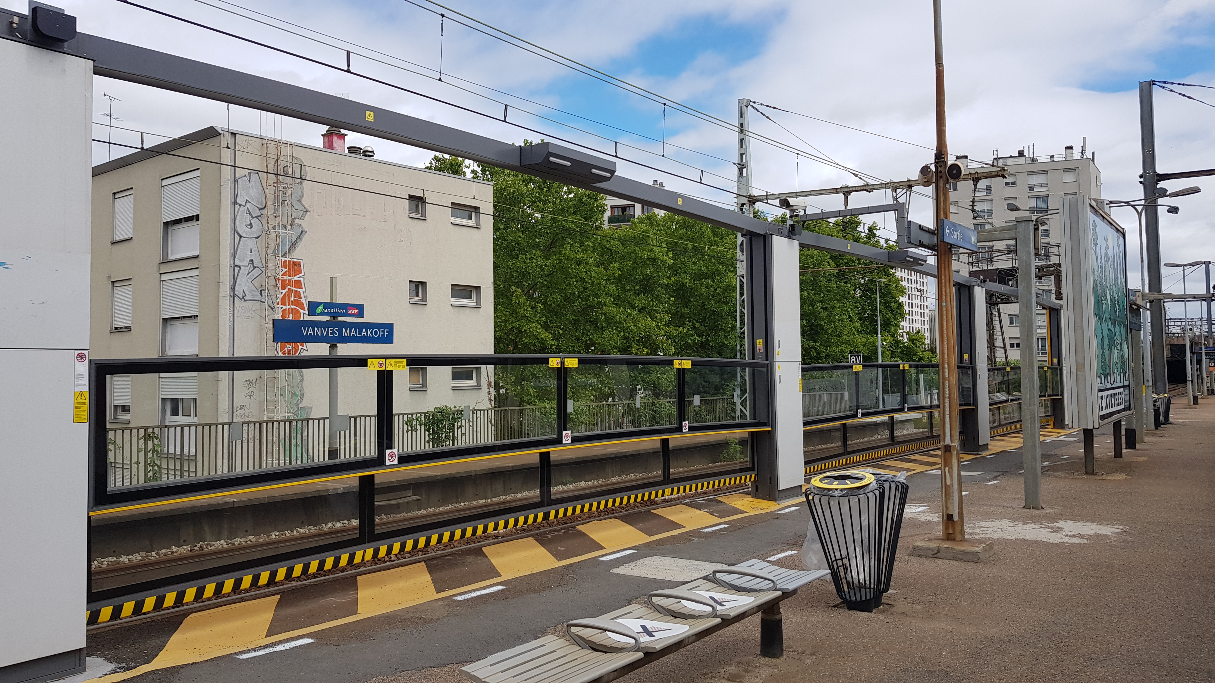 Photo of the platform 2bis of Vanves-Malakoff station taken in June 2020, when it was equipped with platform curtains manufactured by HENGZHU. The curtains are in the closed position and the warning lights are off because no train is currently at the platform.